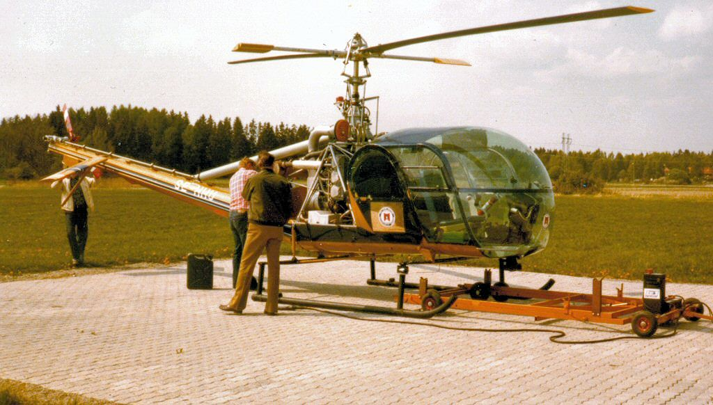 Hiller UH-12E-4 @ Johannisberg Västerås, 1979